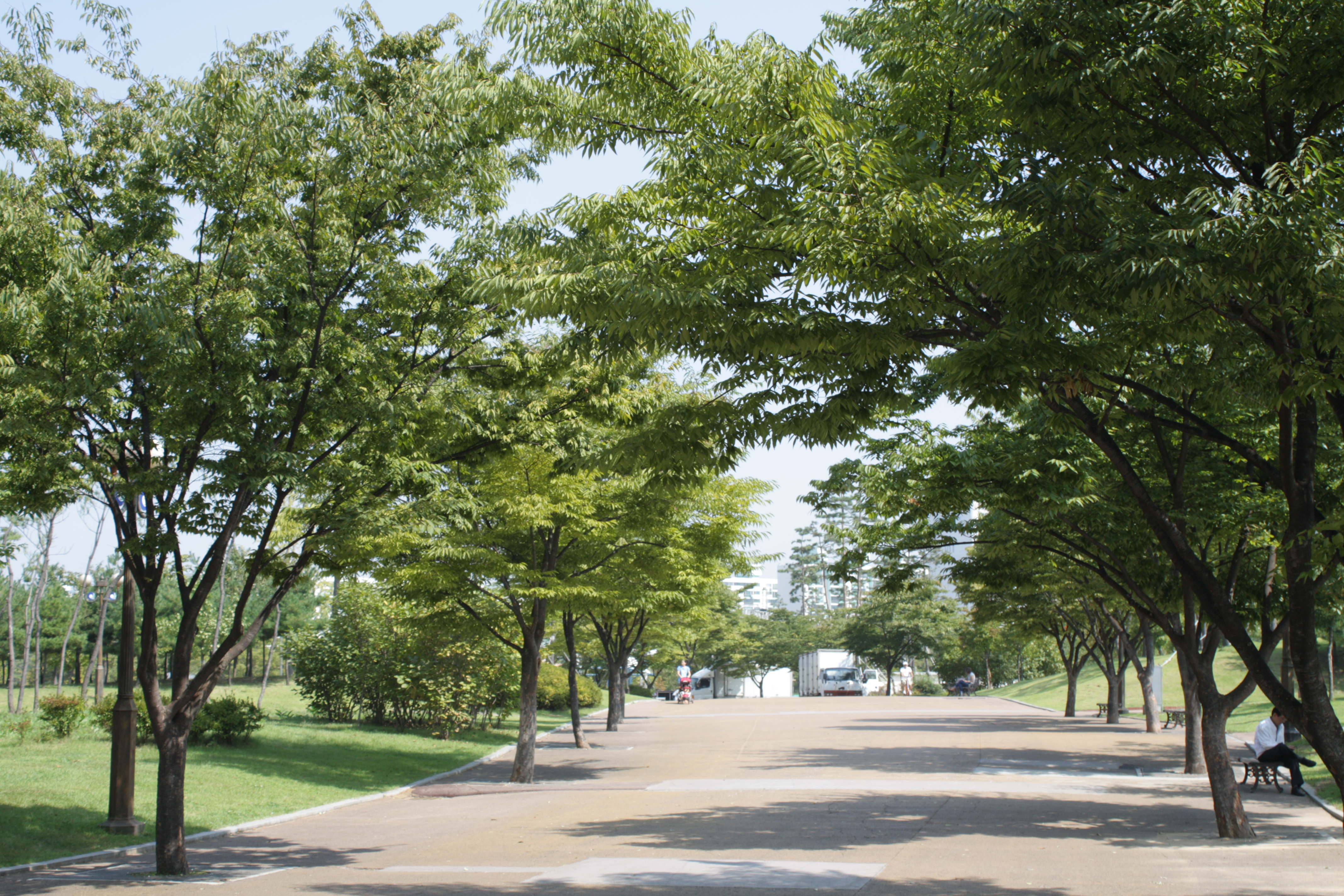 Bupyeong Park in Incheon, Korea